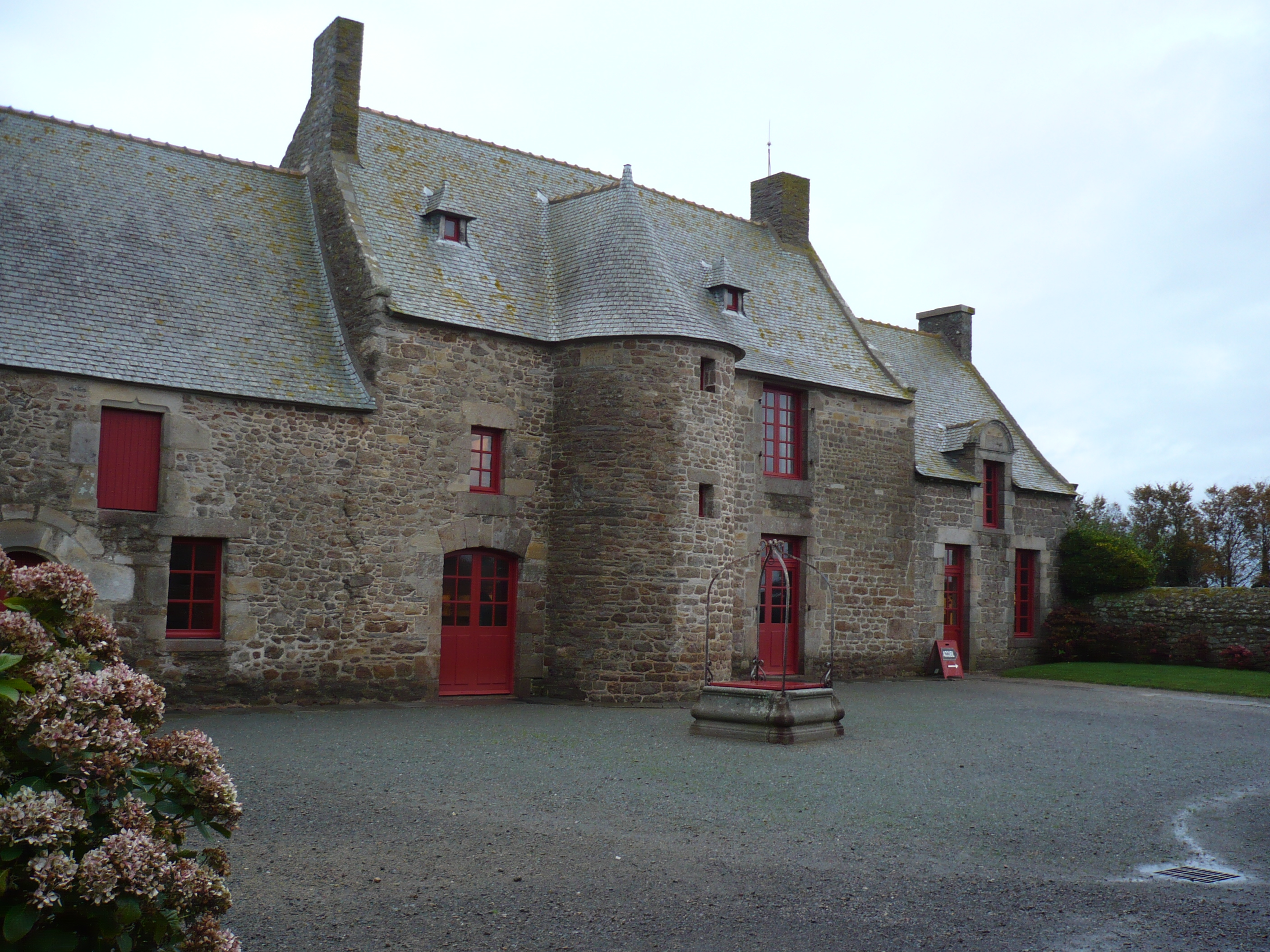 Manor of Limoelou in Saint-Malo (France)